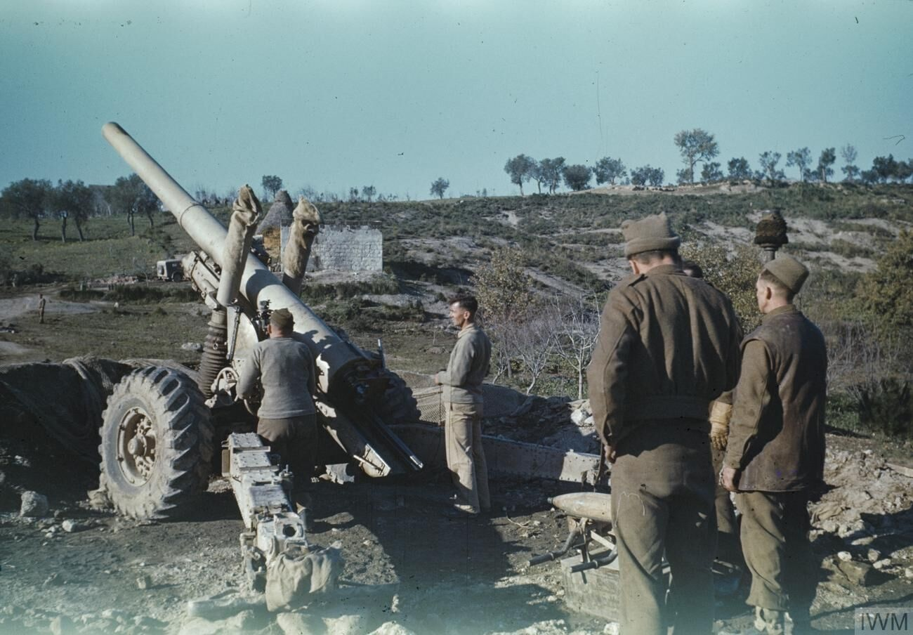 A 5.5 Inch Gun Crew on the Italian Front, 10 January 1944 The crew of the 5.5 inch gun await the order to commence firing, near Sessa Aurunca, Garigliano River Valley, Italy.